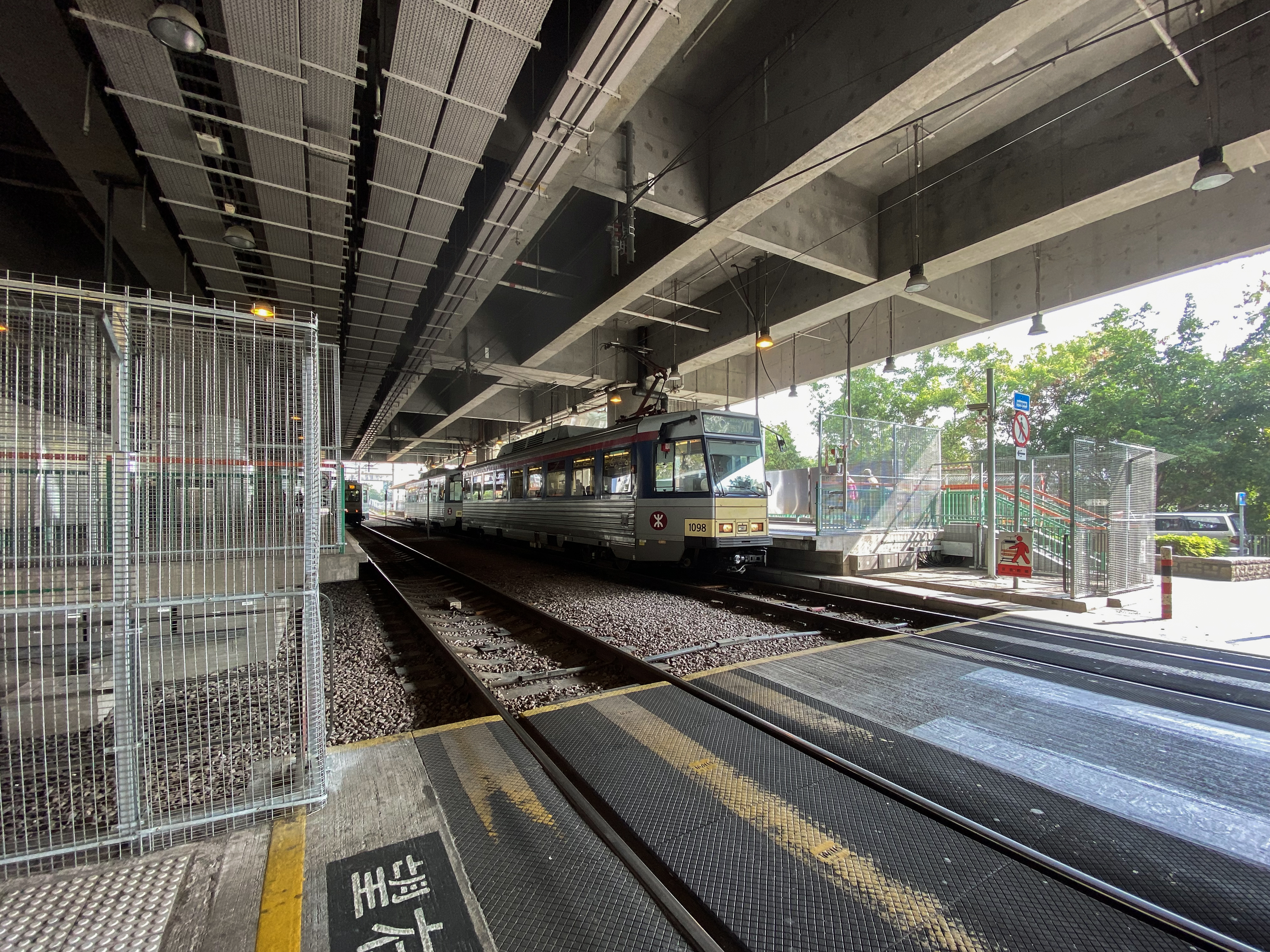 Tin Shui Wai Stop fence barrier